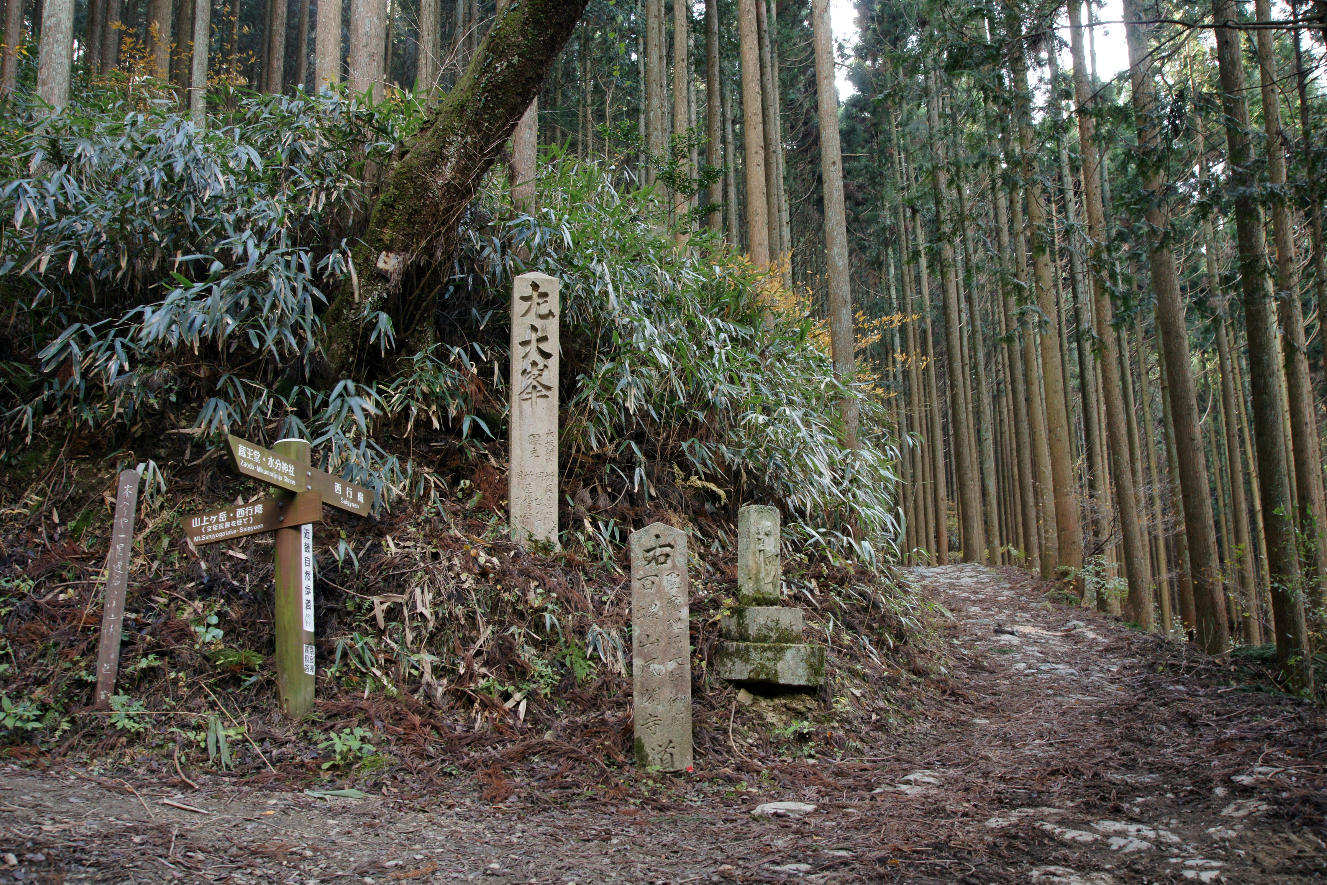 at Oku-no-senbon area in Yoshino, Nara prefecture, Japan